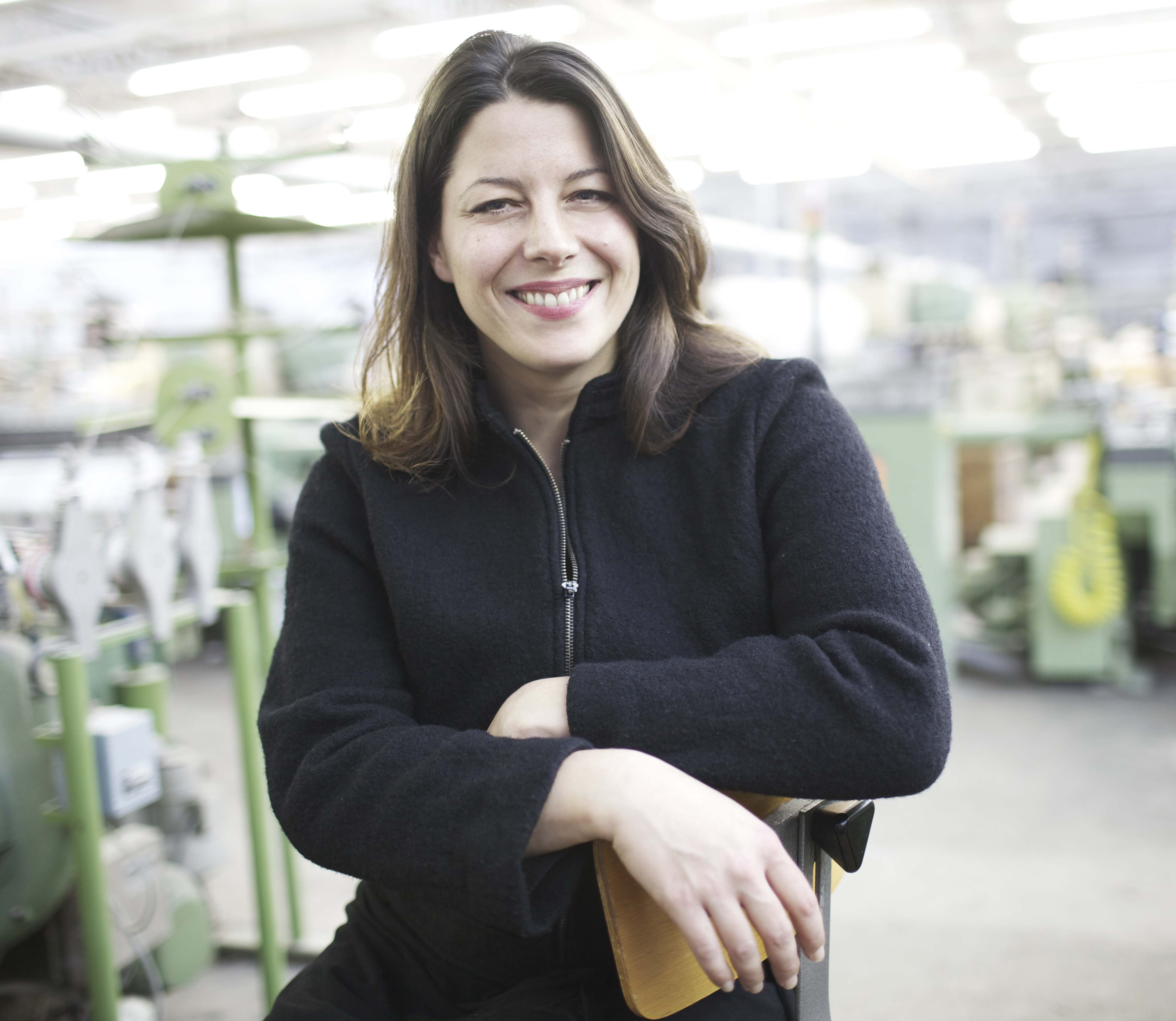 Sophie Mallebranche - Official Portrait